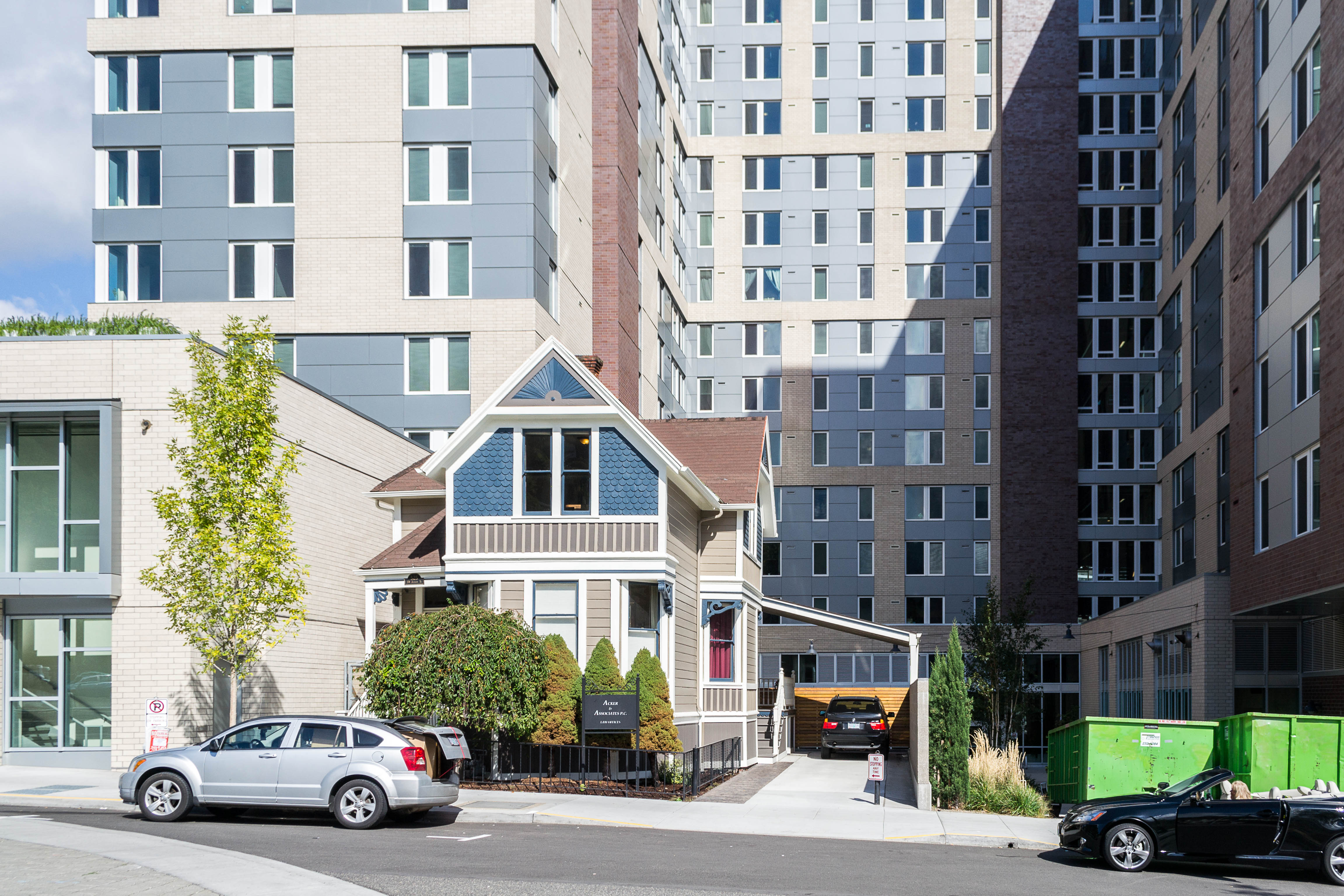 Figo House is an example of the limits of eminent domain laws in Portland, Oregon